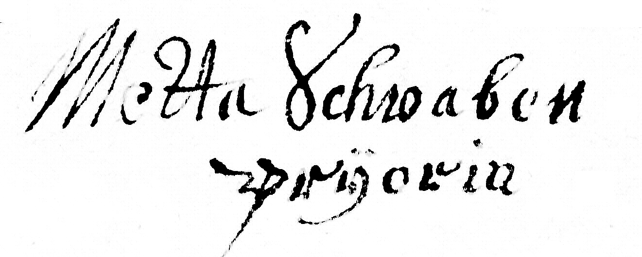 Signature of German priör Metta von Schwaben